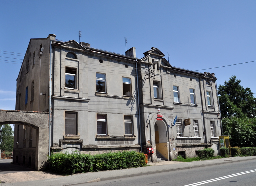 Post office in Gorzów Śląski, Poland